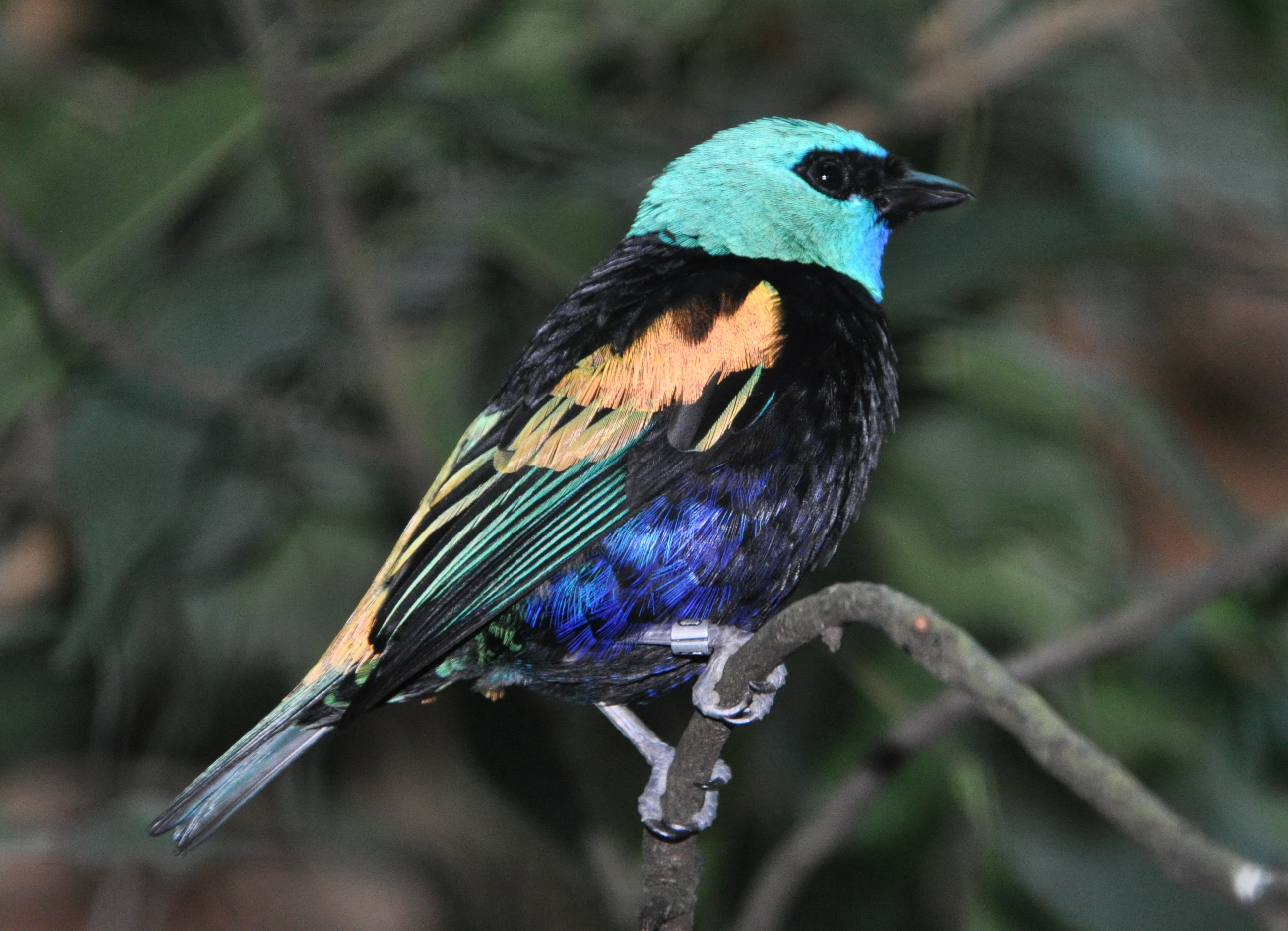 Blue-necked Tanager (Tangara cyanicollis) in the Walsrode Bird Park, Germany.